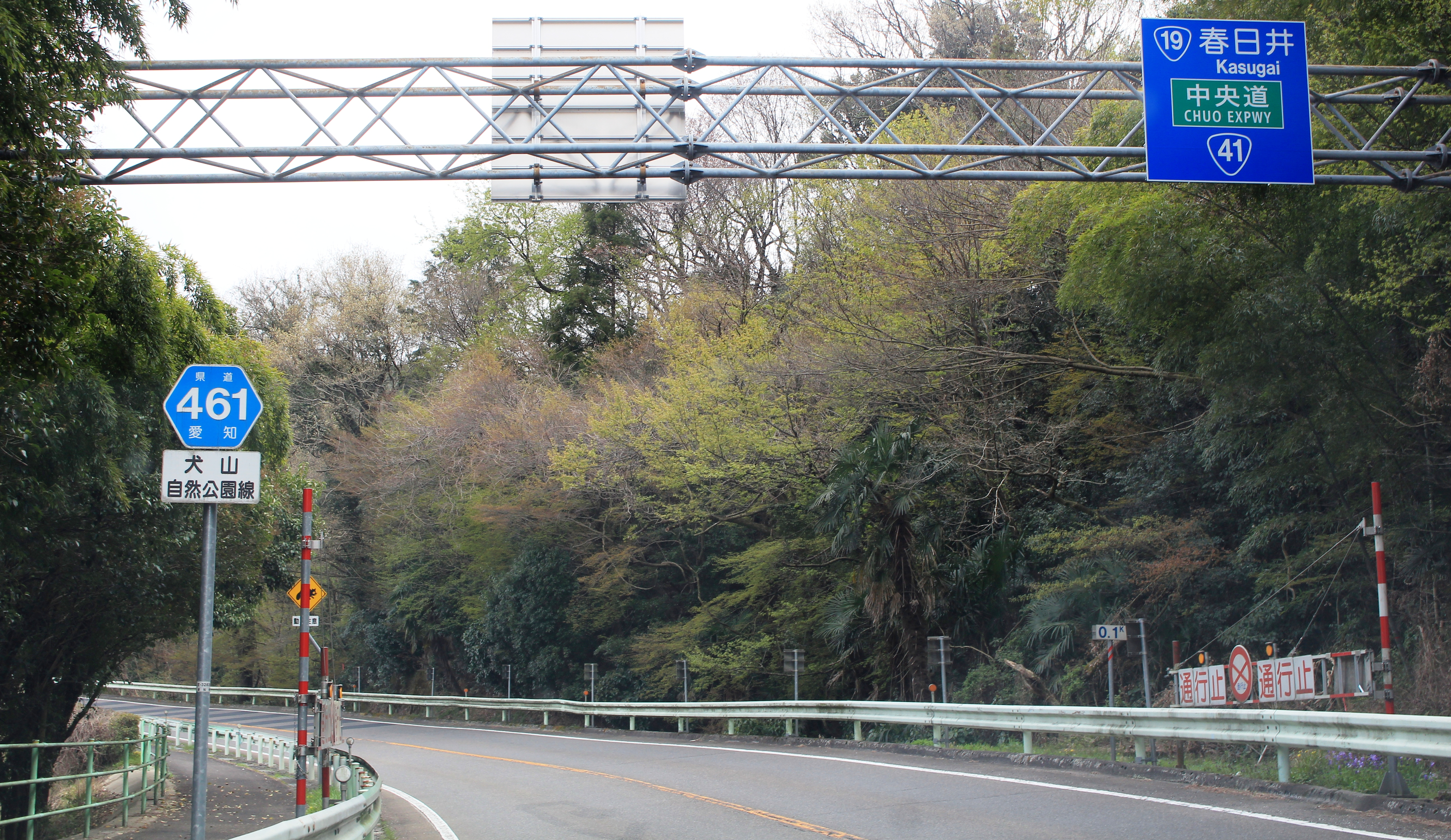 Aichi Prefectural Road Route 461 in Inuyama, Aichi prefecture, Japan.